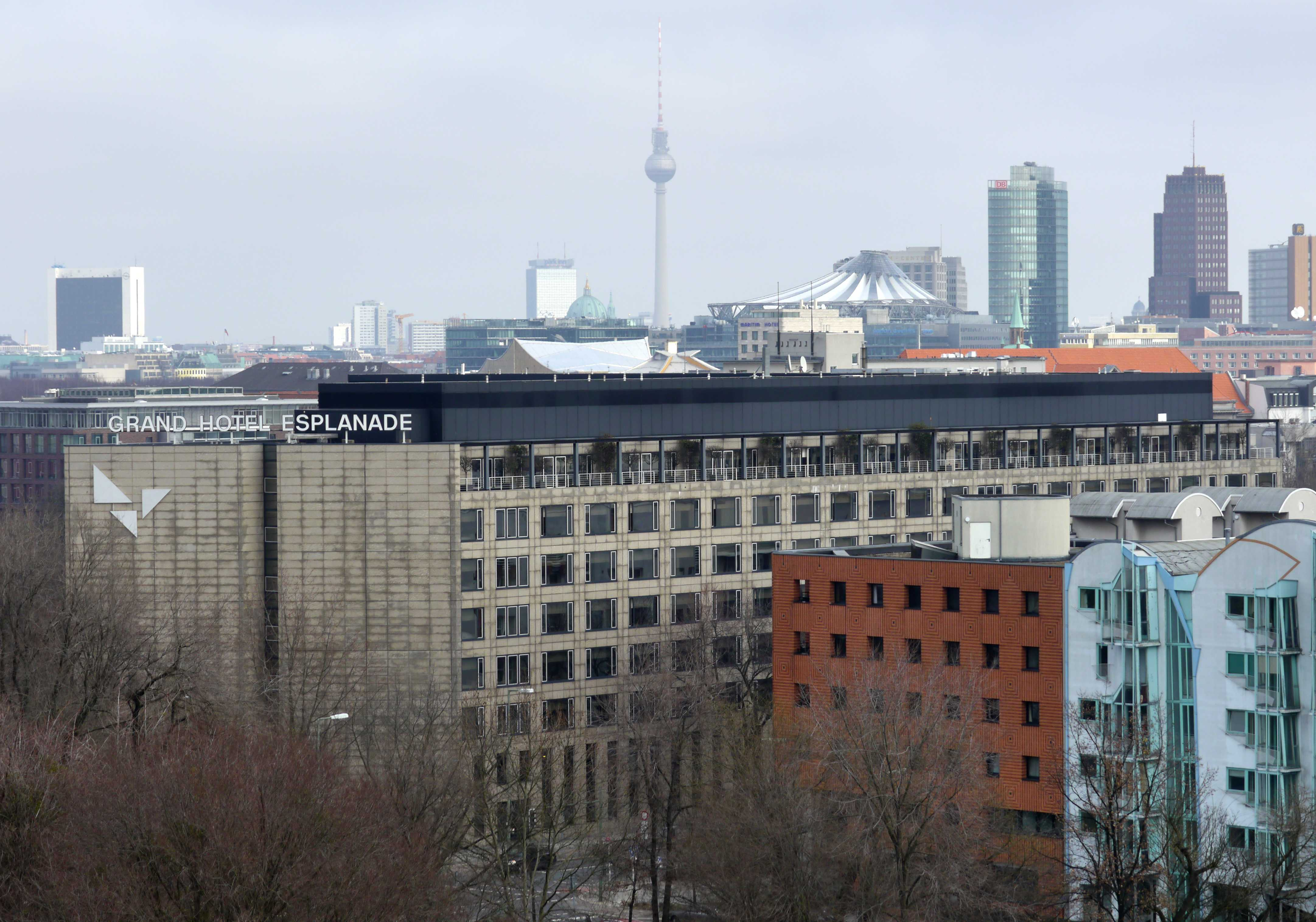 Luetzowplatz, Grand Hotel Esplanade (1988)